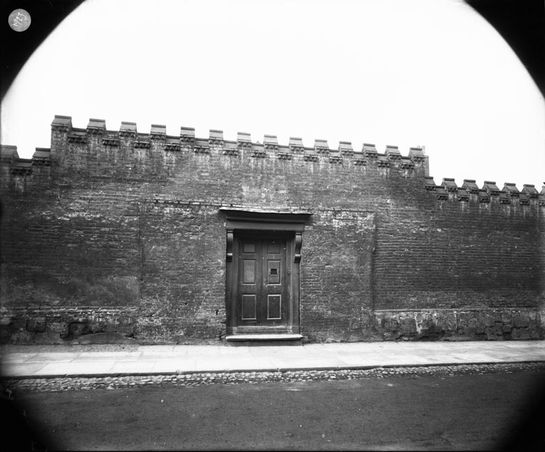 View of the Bury St Edmunds workhouse, Bury St Edmunds, Suffolk. Courtesy of the Spanton Jarman Collection, Bury St Edmunds Past and Present Society